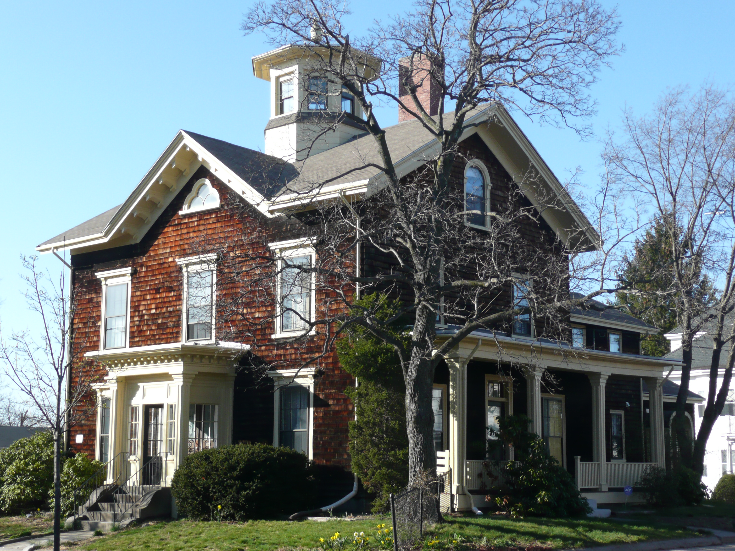 Samuel Gaut House is a historic house at 137 Highland Avenue in Somerville, Massachusetts. It was built in 1850 and added to the National Register of Historic Places in 1989.